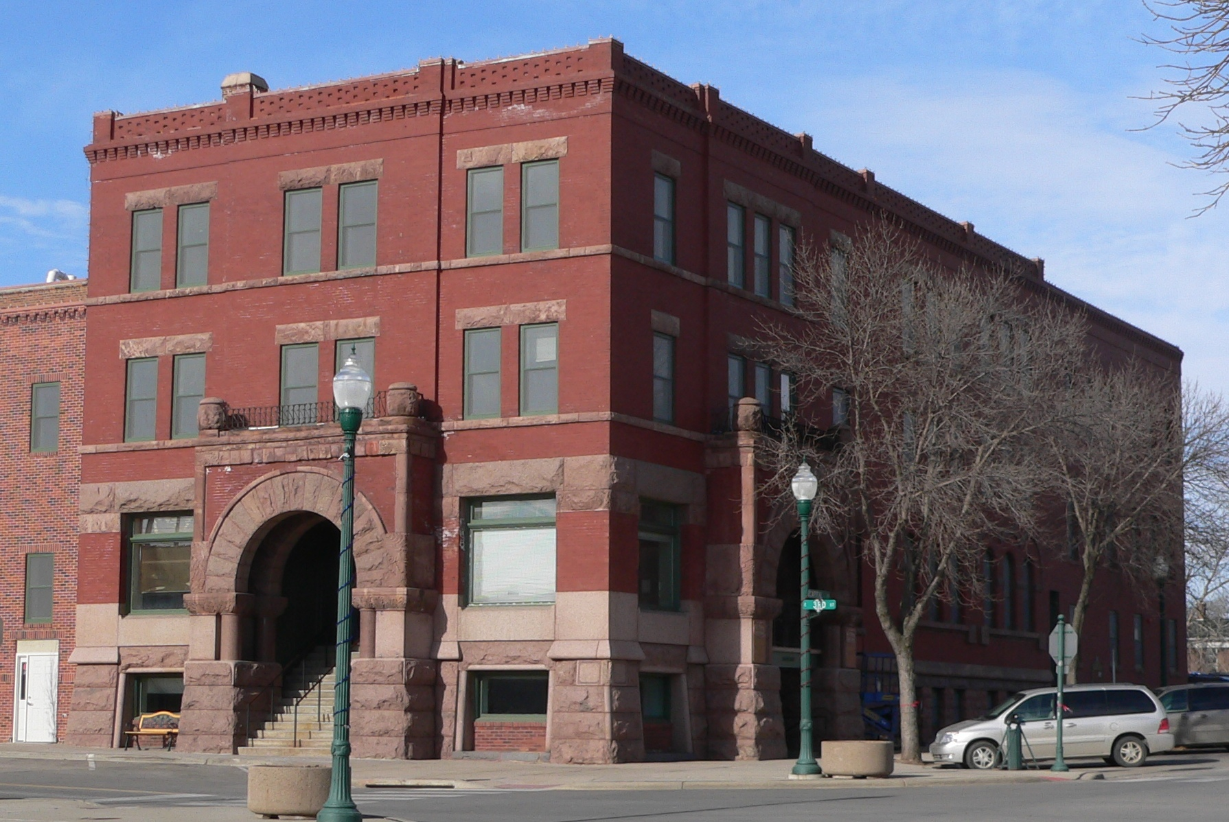 Charles Gurney Hotel, located at northwest corner of 3rd and Capital Streets in Yankton, South Dakota; seen from the southeast. The Renaissance Revival hotel was built in 1891. It is listed in the National Register of Historic Places.